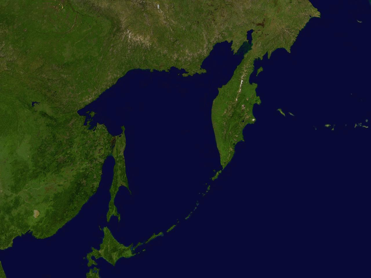 Sea of Ochotsk